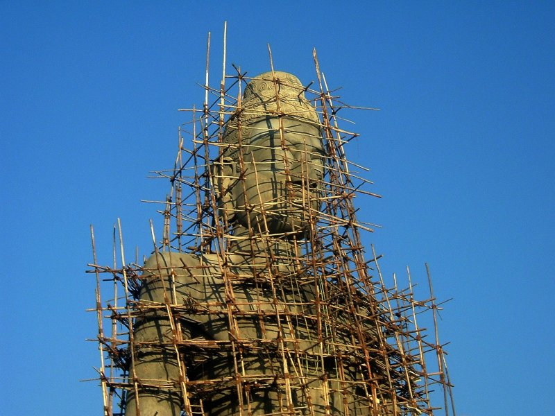 Statue of Dhyana Buddha under construction in Amaravathi.